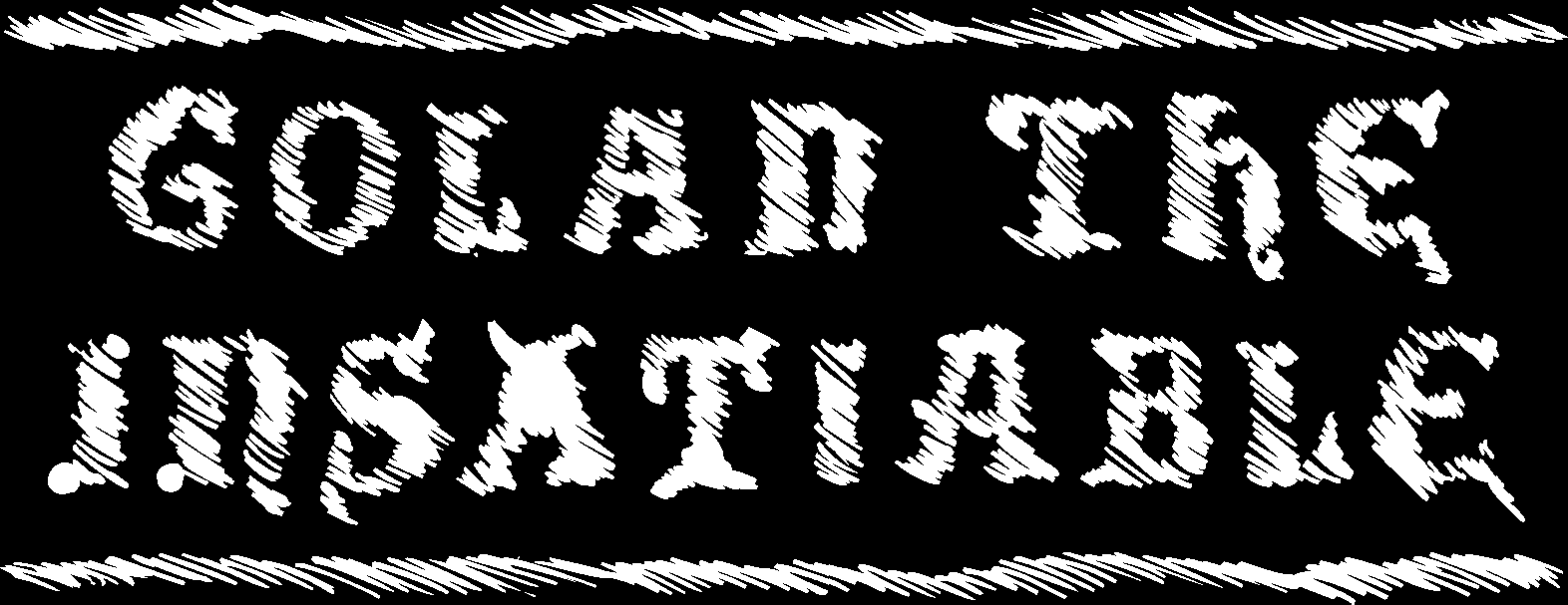 GTI black alternate logo.